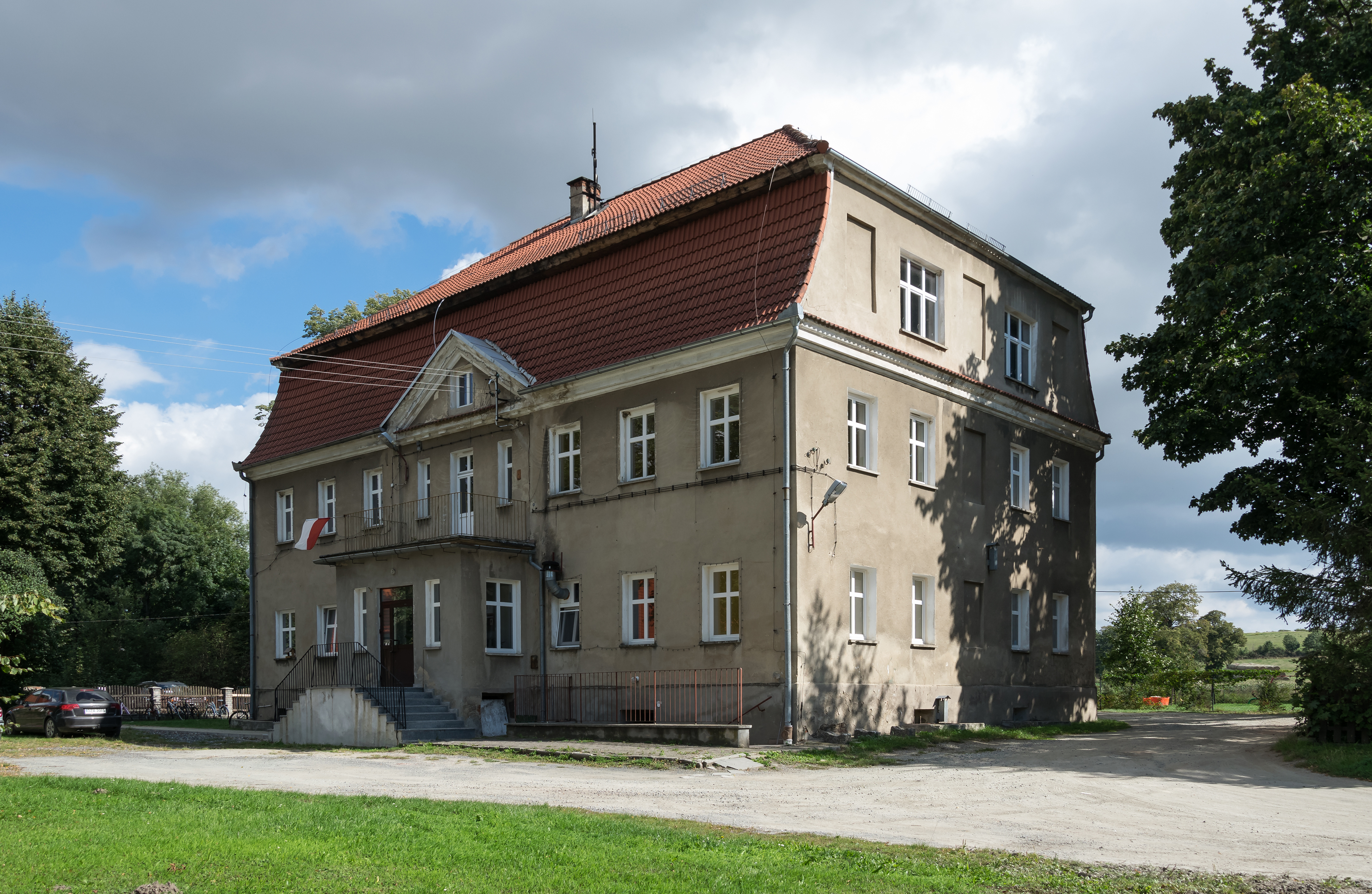 Palace in Przedborowa